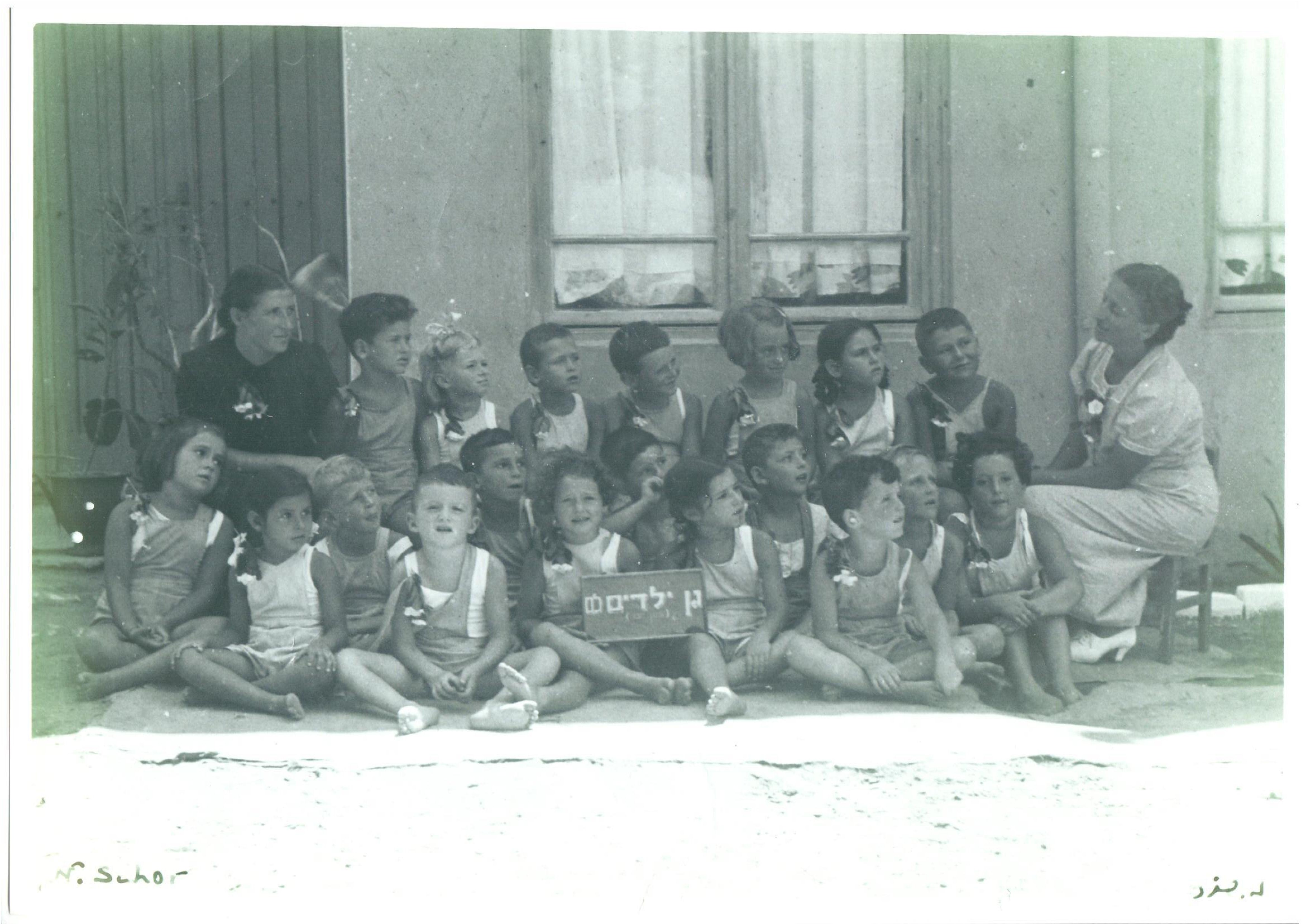 Kindergarten teachers Chawa Werba and Shulamith Kleinstein with children in Werba's kindergarten (Tel Aviv's 29th kindergarten) c. late 1930s.